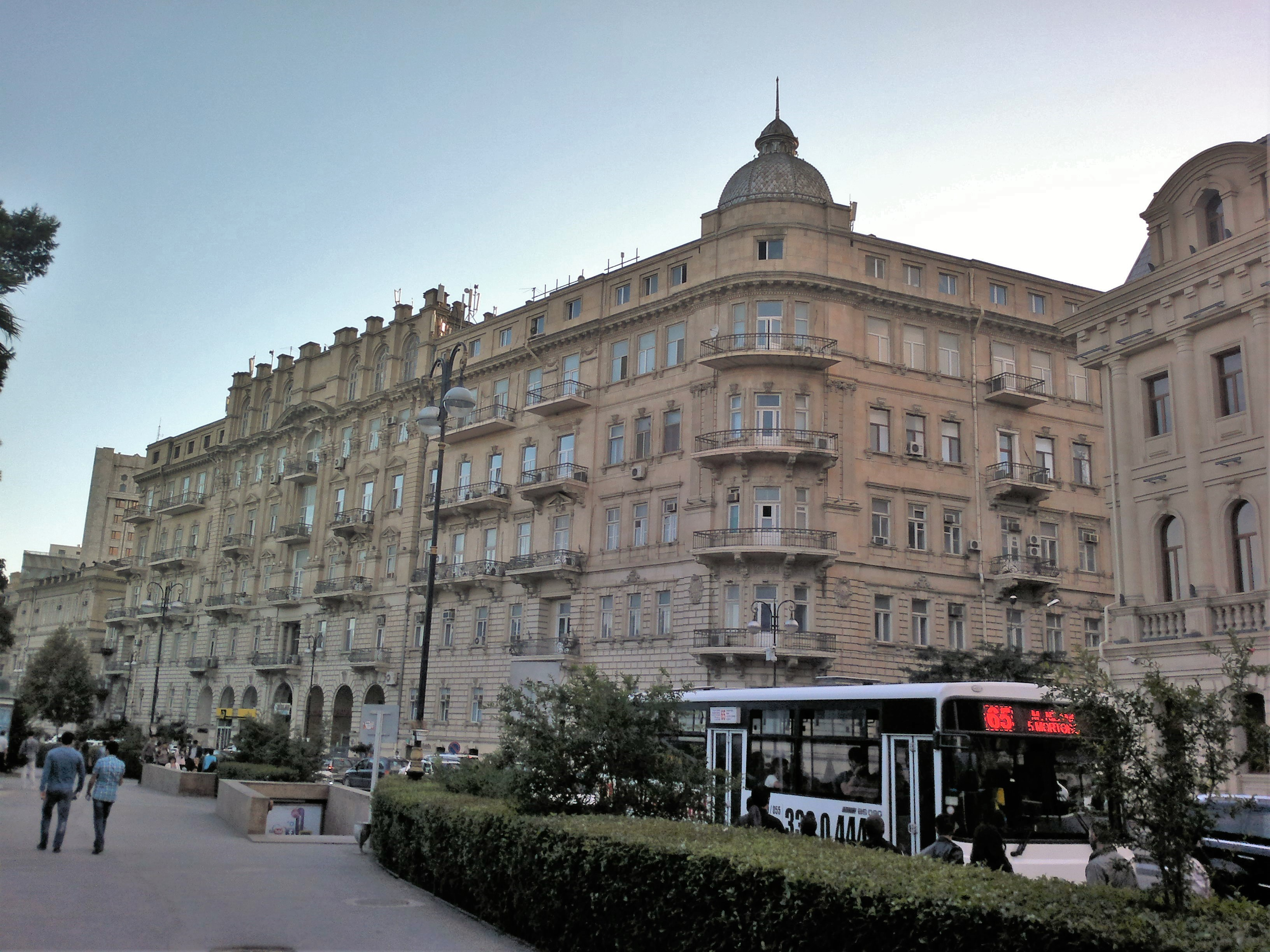 The building of the Baku Prosecutor. Built in 1917.